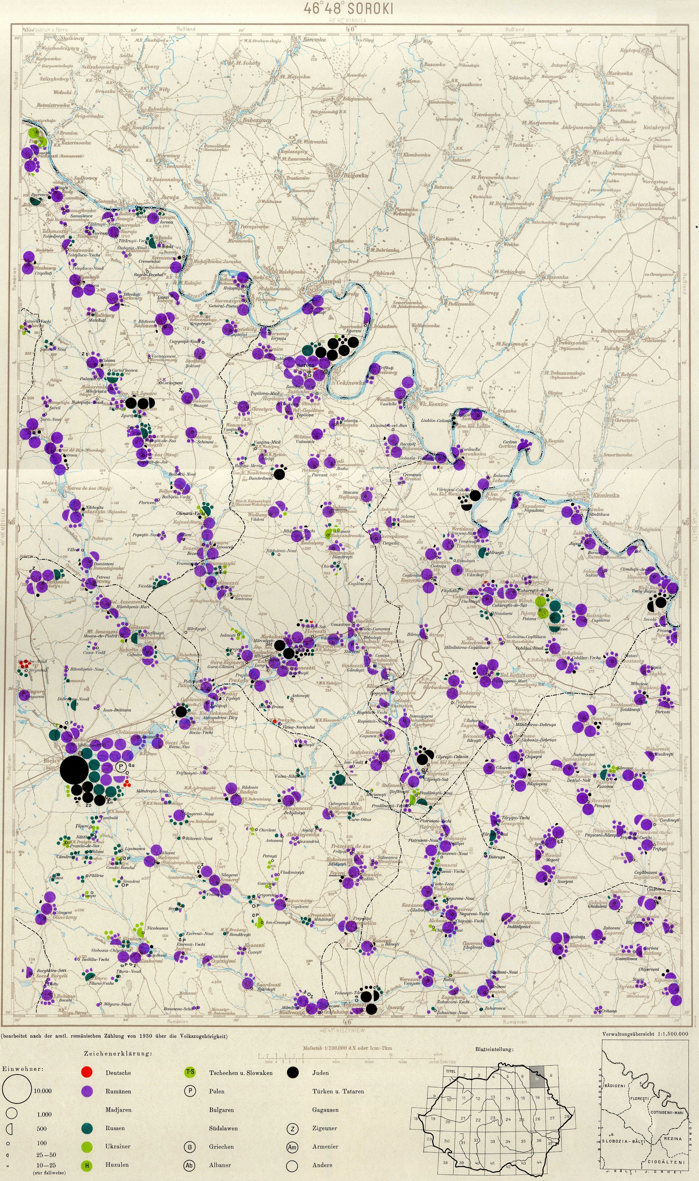 Ethnic map (of this map) according to the Romanian census 1930.